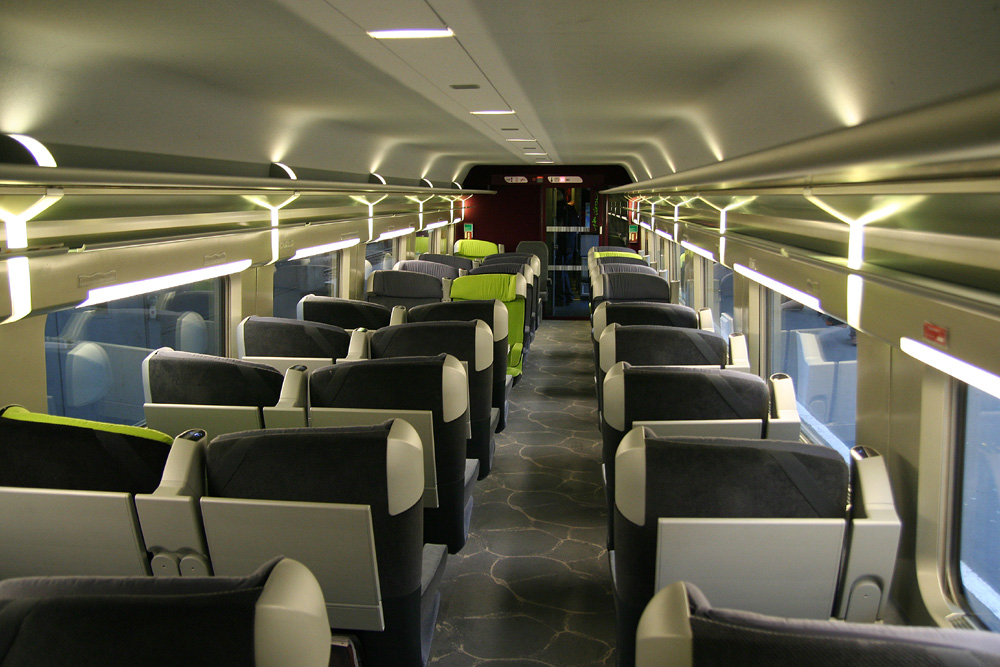 Interior in the 1st class of the TGV POS